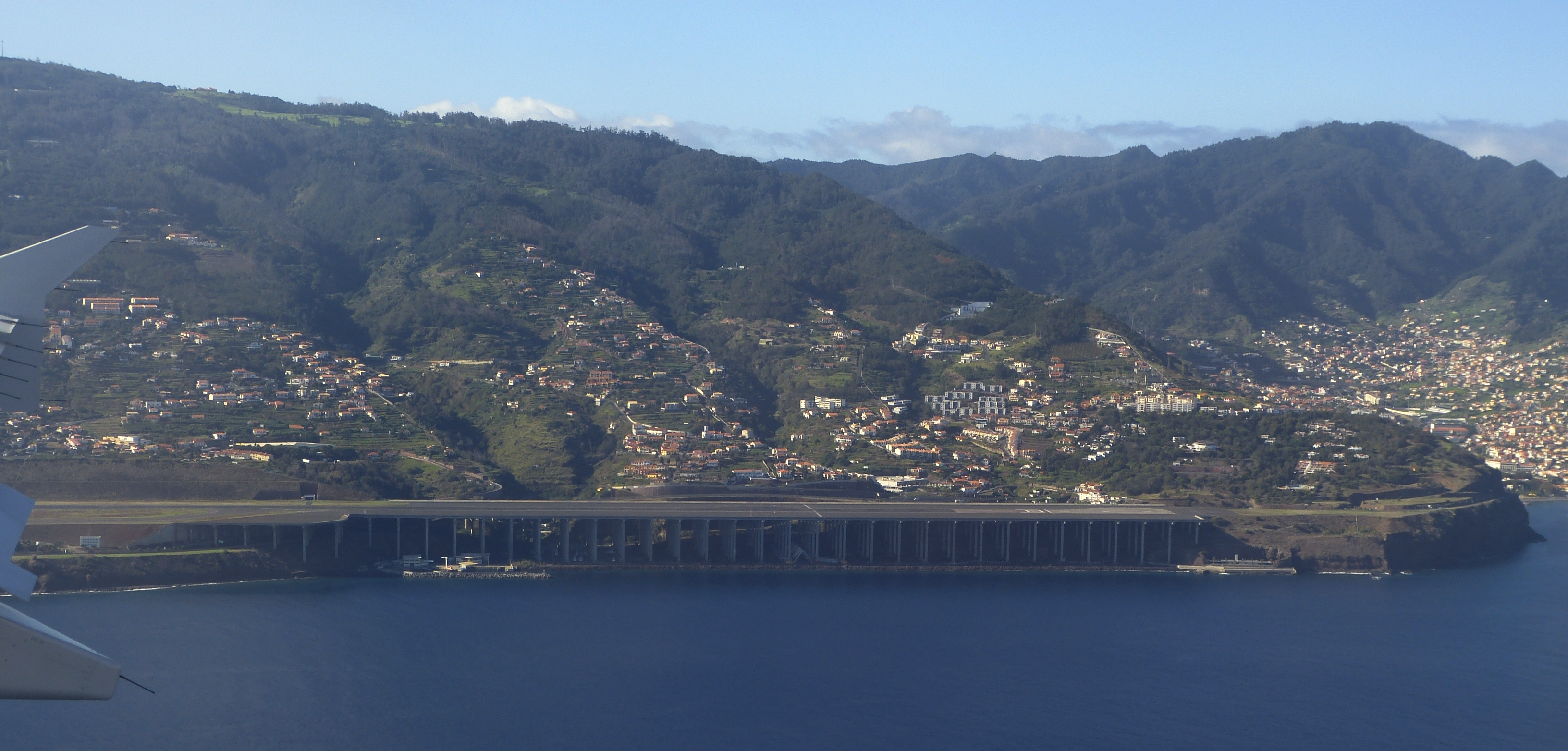 Approach of Airport of Madeira, view on runway